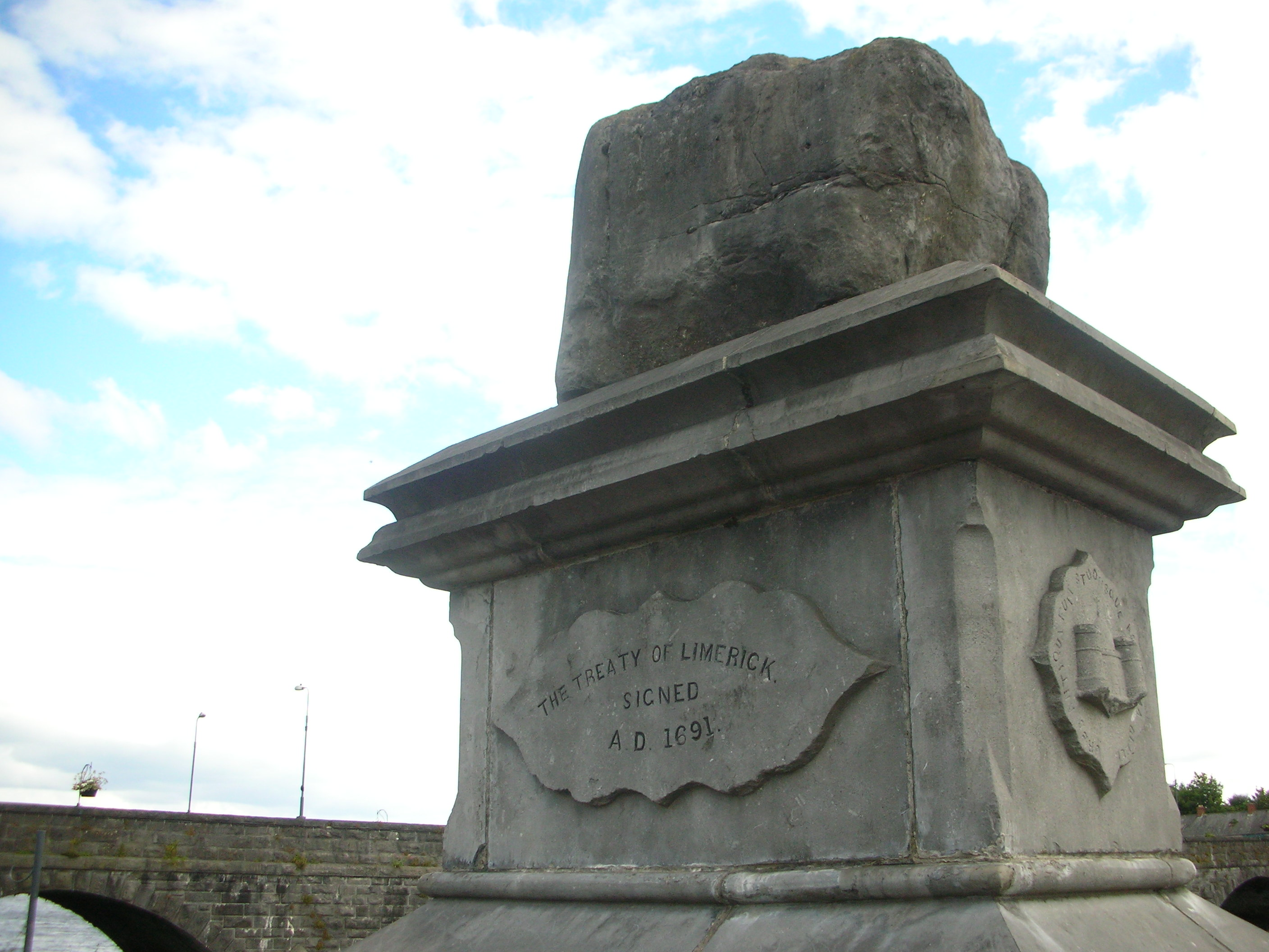 The "treaty stone" of Limerick city, in Ireland.